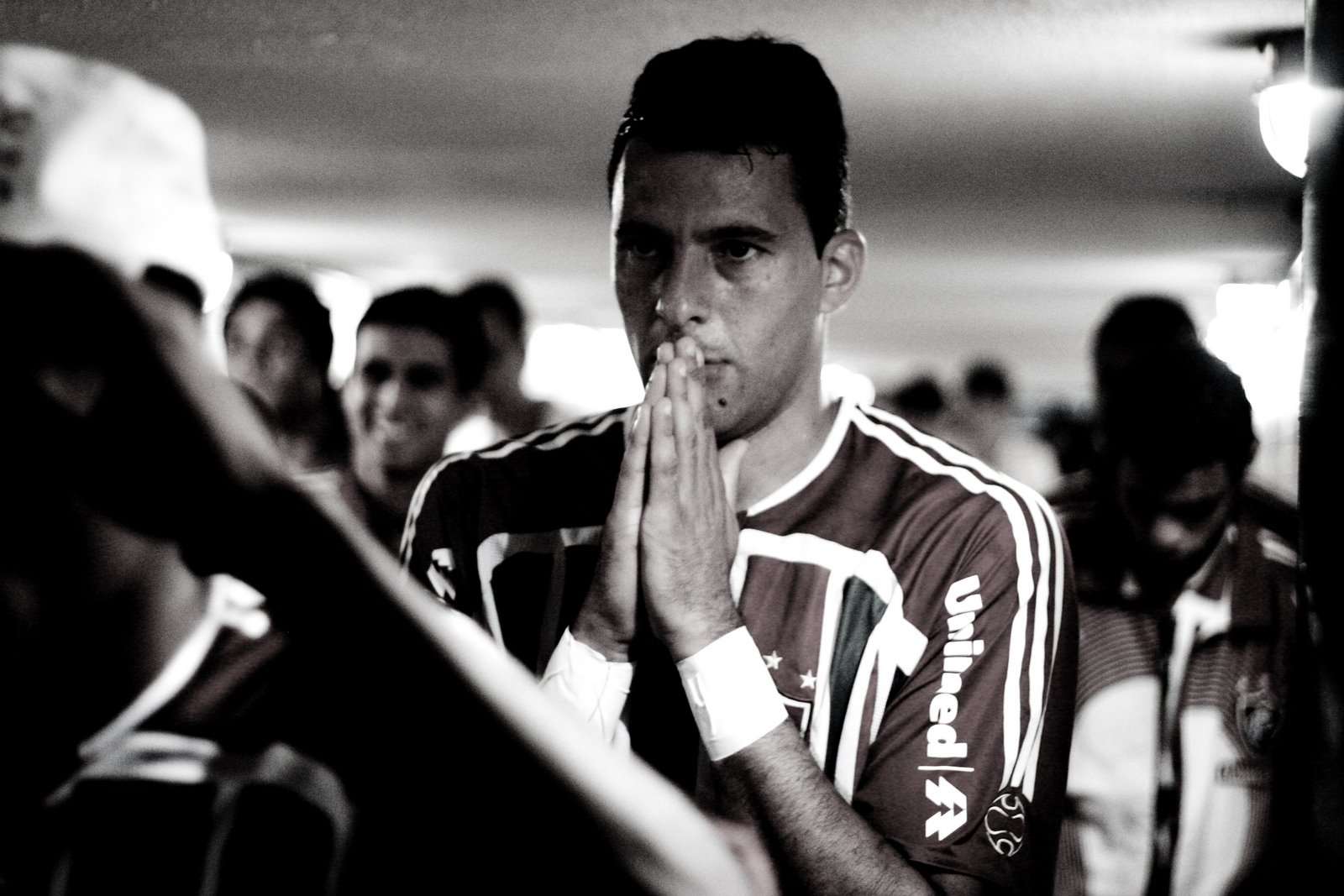 Washington, Fluminense's striker, moments before the 2008 Libertadores Cup Final. July 2nd, 2008